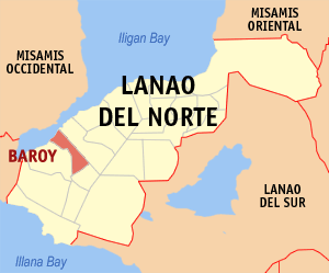 Map of the Lanao del Norte showing the location of Baroy